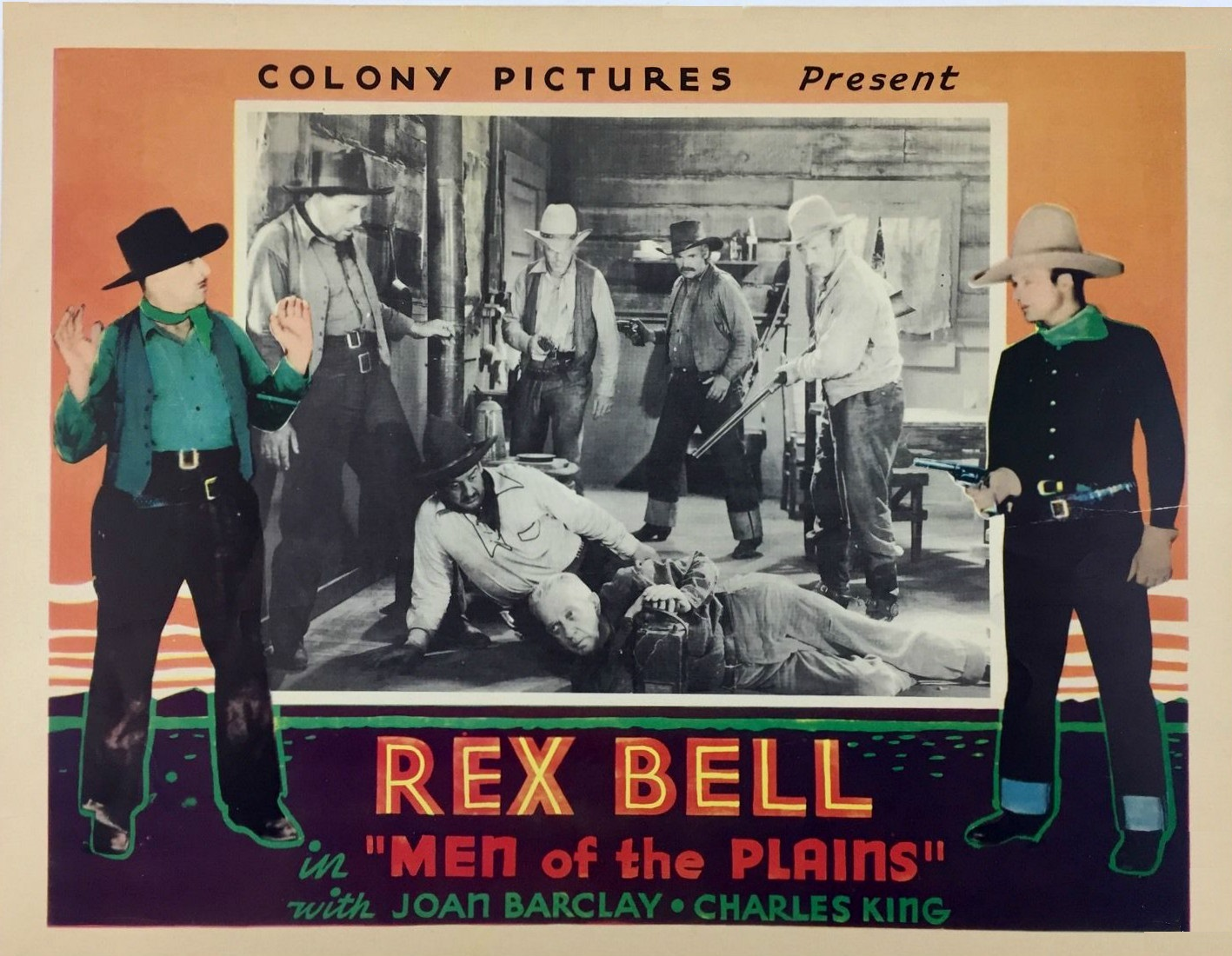 Lobby card for the American western film Men of the Plains (1936) with Roger Williams and Rex Bell.